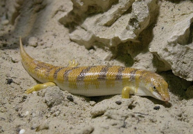 Sandfish (Scincus scincus). Taken with a Nikon Coolpix 5700 camera)